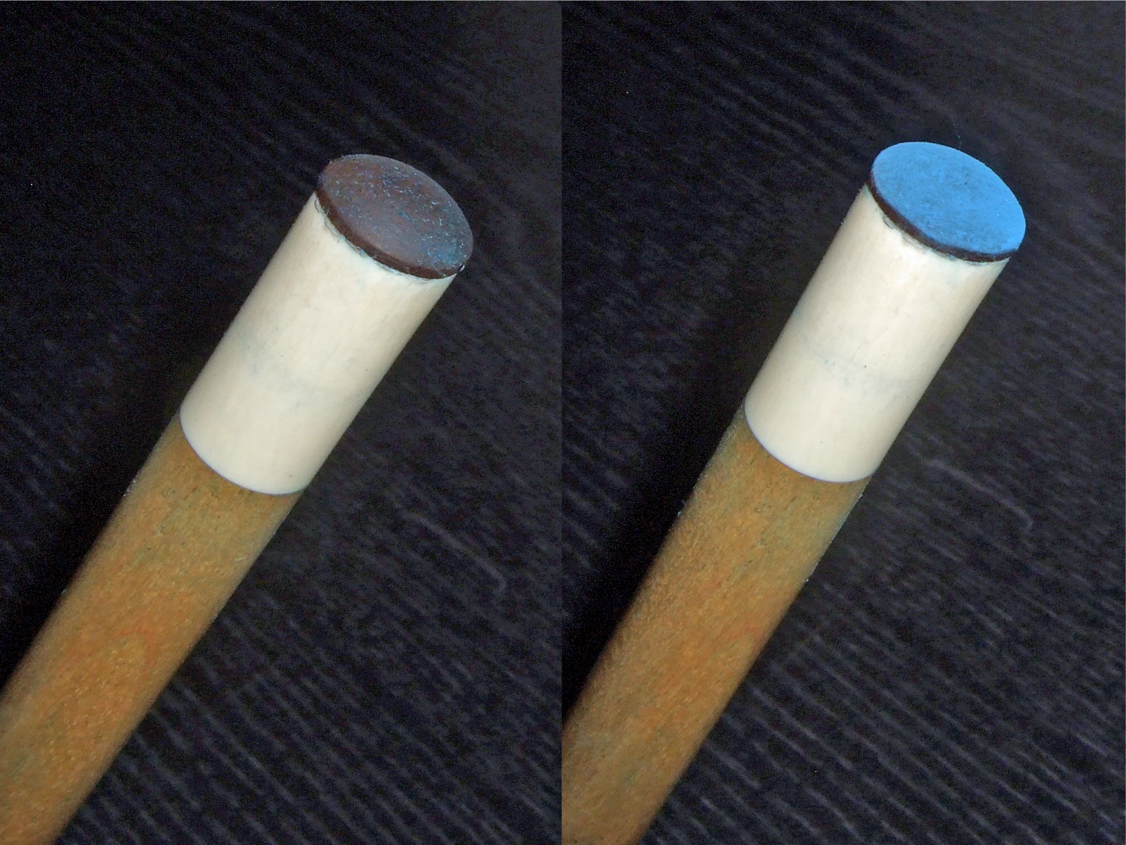 A comparisson between an unchalked and a chalked cue.